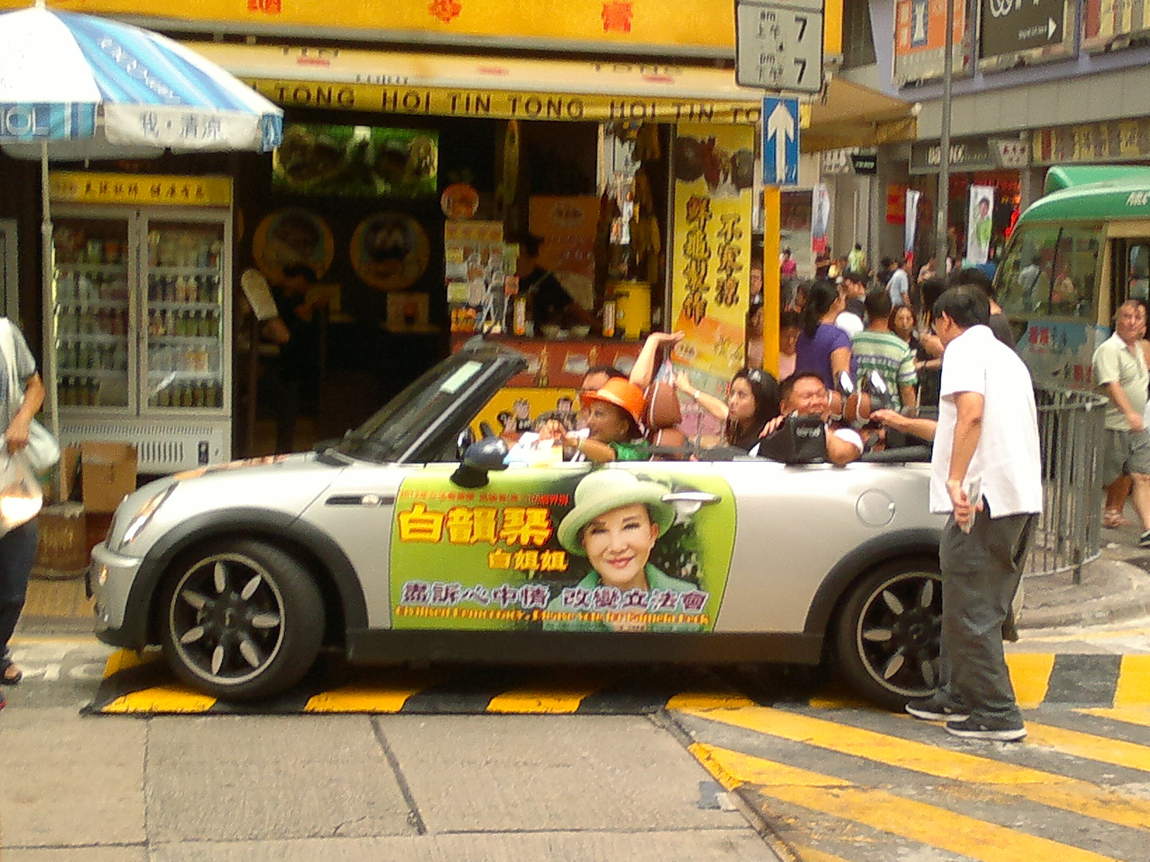 Pamela Peck 2012 Legco Promotion